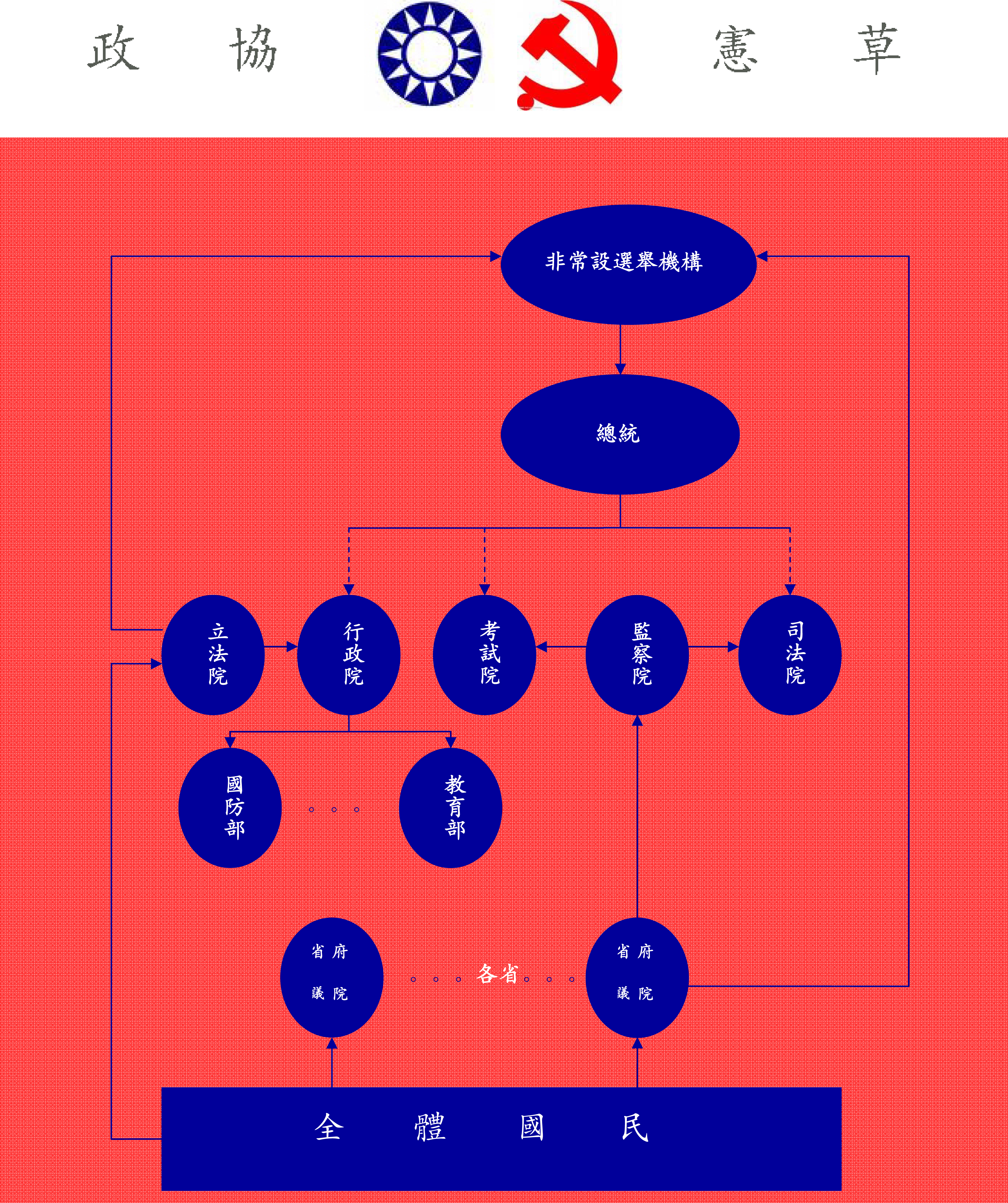 The structure draft of Constitution of R.O.China in 1946